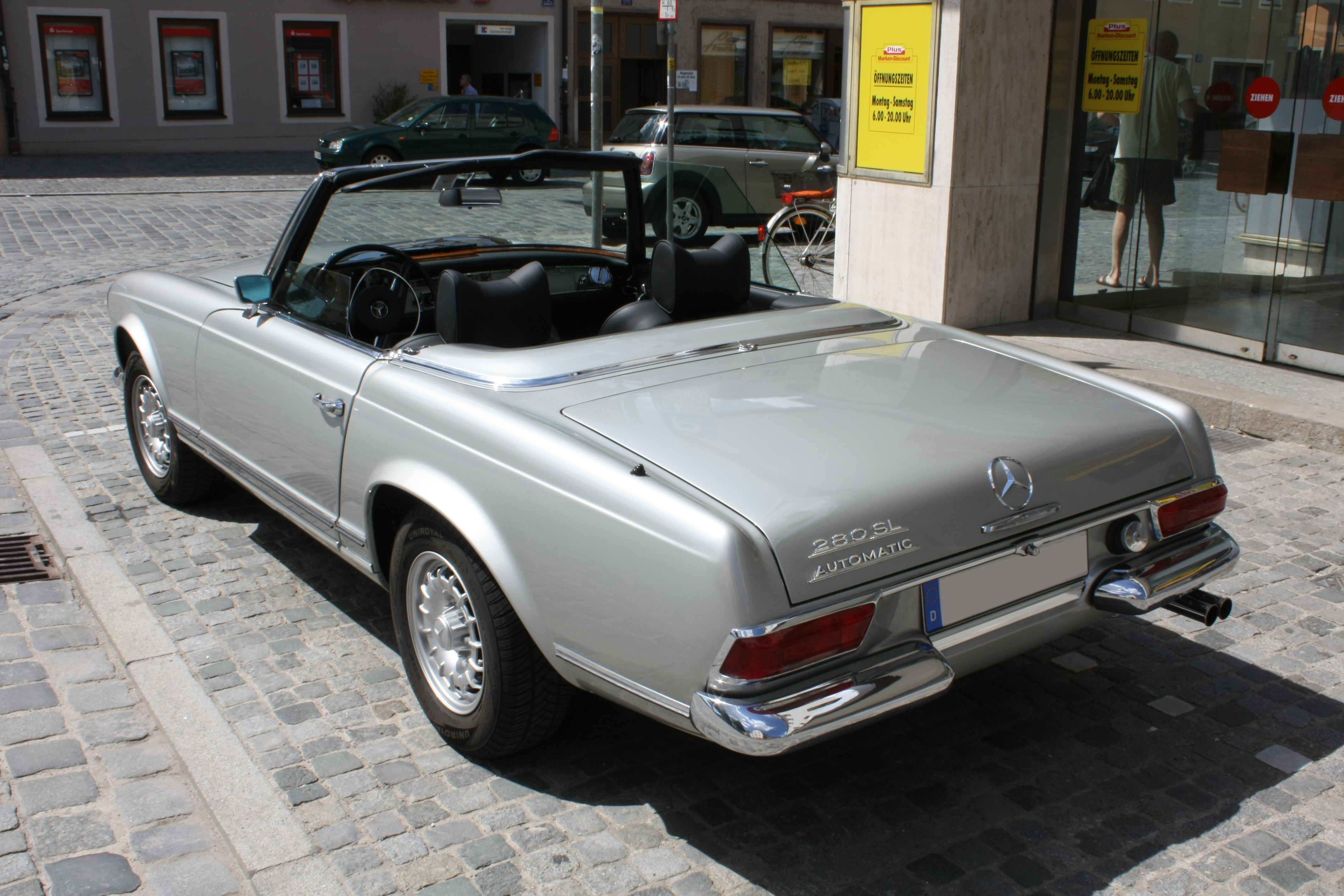 Mercedes-Benz W113 280SL Automatic